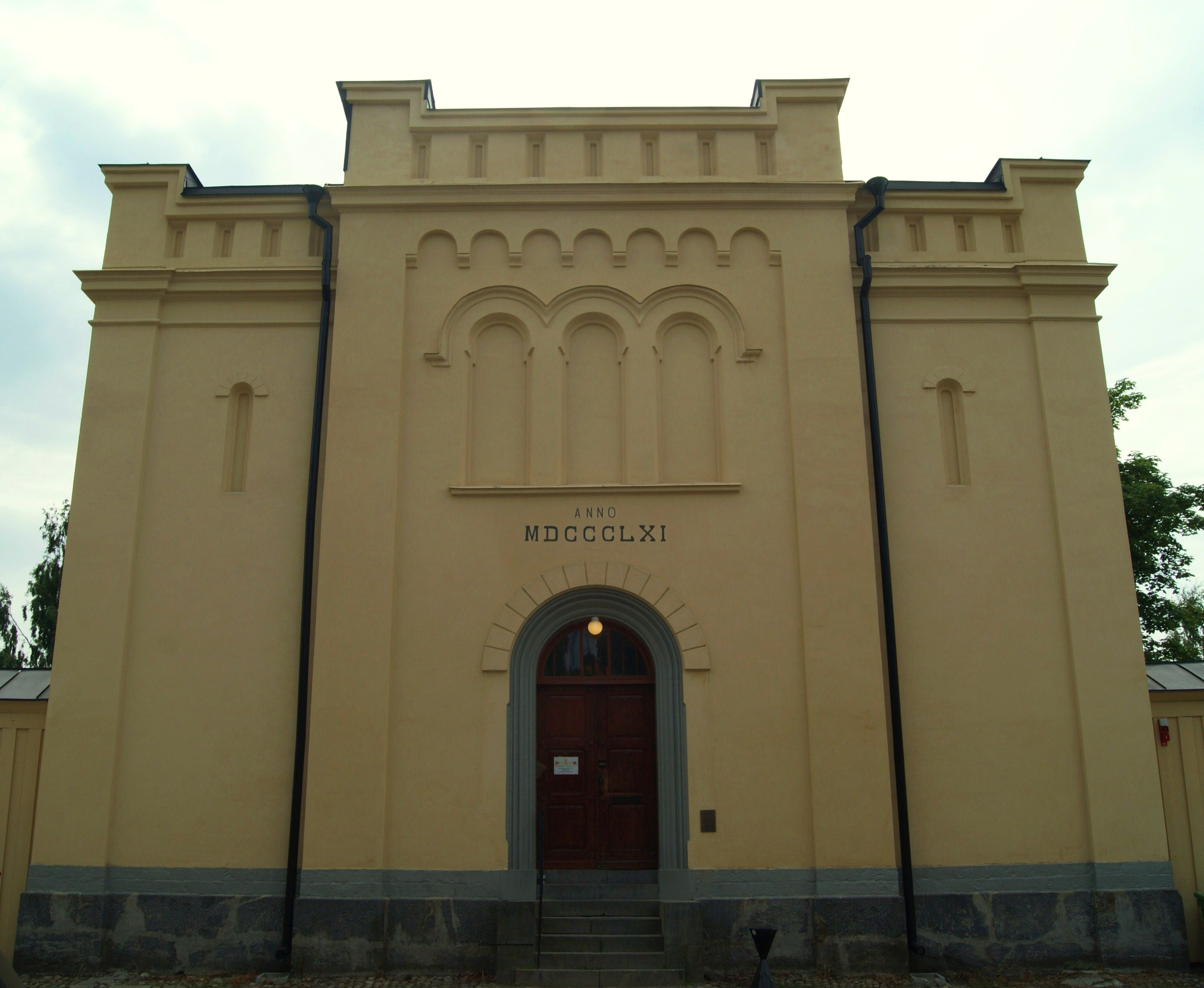 The construction of Umeå's old city prison started in 1859 and the first interns was put there in 1861. The prison had interns up until 1981. On the picture the main entrance of the main building of the prison is shown. The photo was taken from the street, Storgatan, outside.